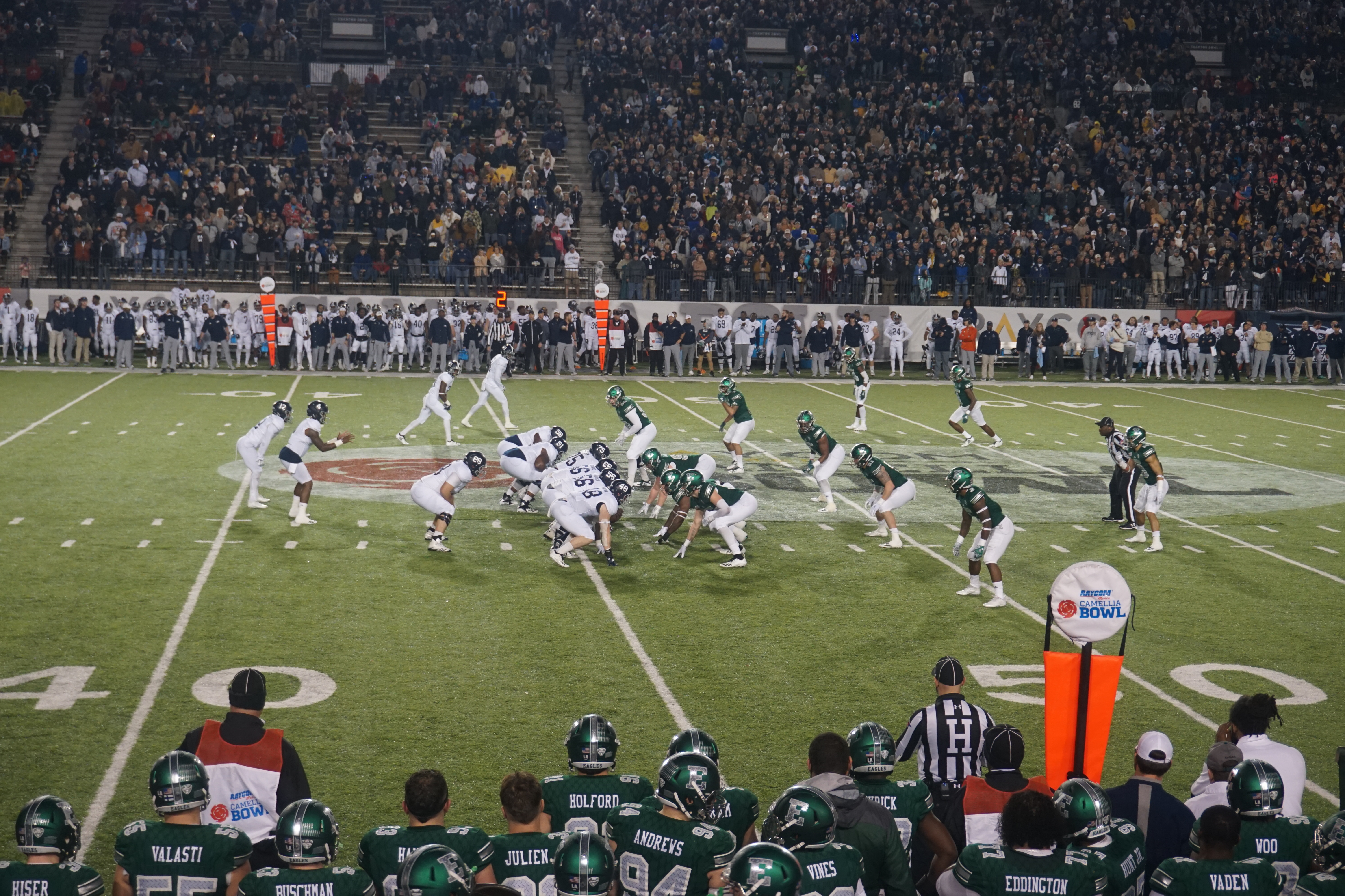 Georgia Southern on offense during the 2018 Camellia Bowl (Georgia Southern Eagles vs. Eastern Michigan Eagles) at the Cramton Bowl in Montgomery, Alabama (United States). Georgia Southern won 23–21.